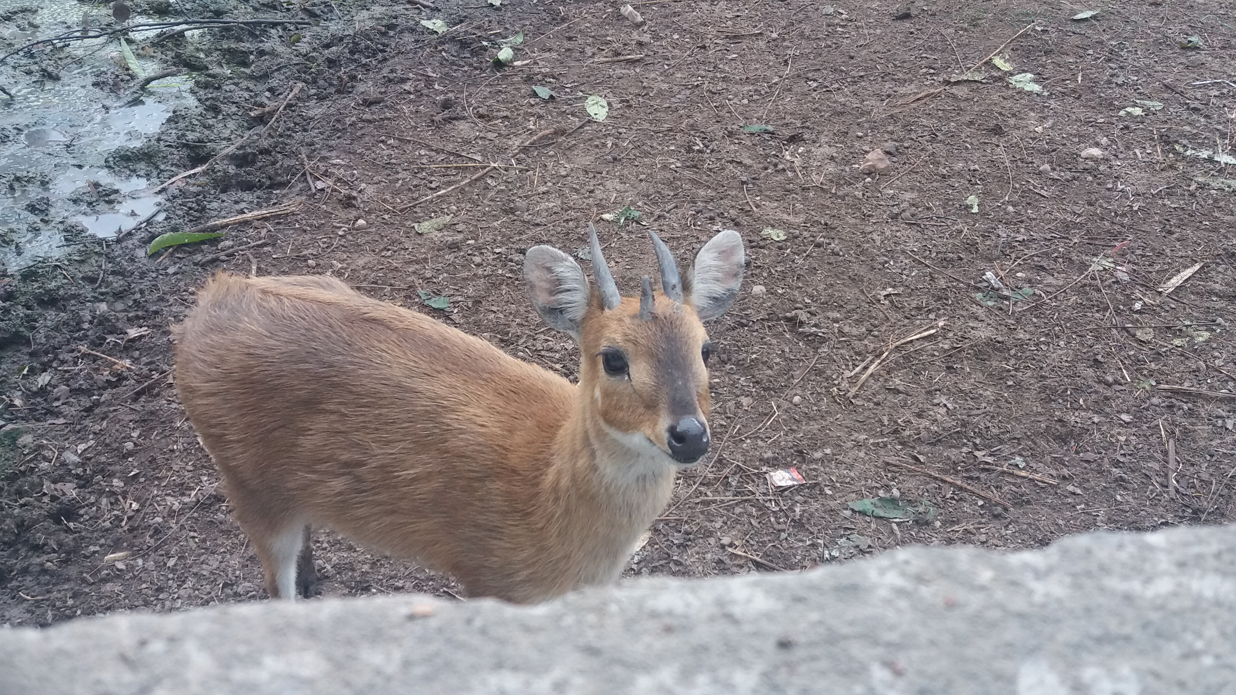 At the Central zoo of Nepal.